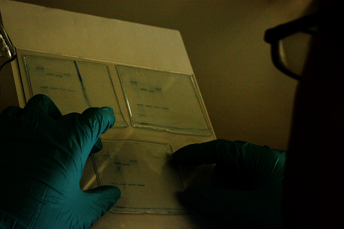 Scientist cutting protein bands from electrophoresis gel stained with Coomassie Brilliant Blue. Gele-electrophoresis is one of the main methods for protein analysis.